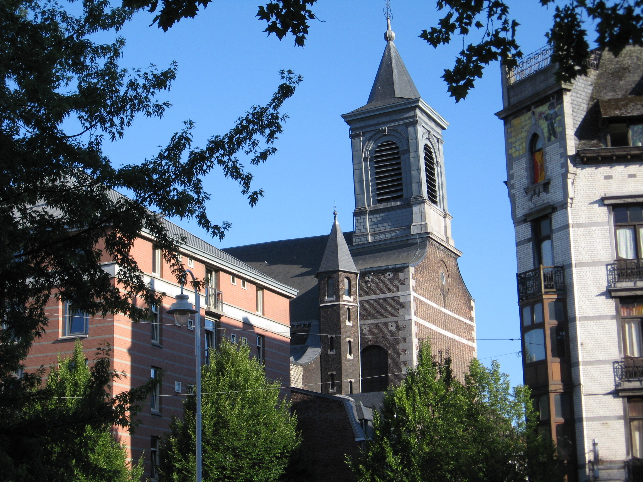 Church of Saint Nicolas in Outremeuse, Liège, Liège, Belgium